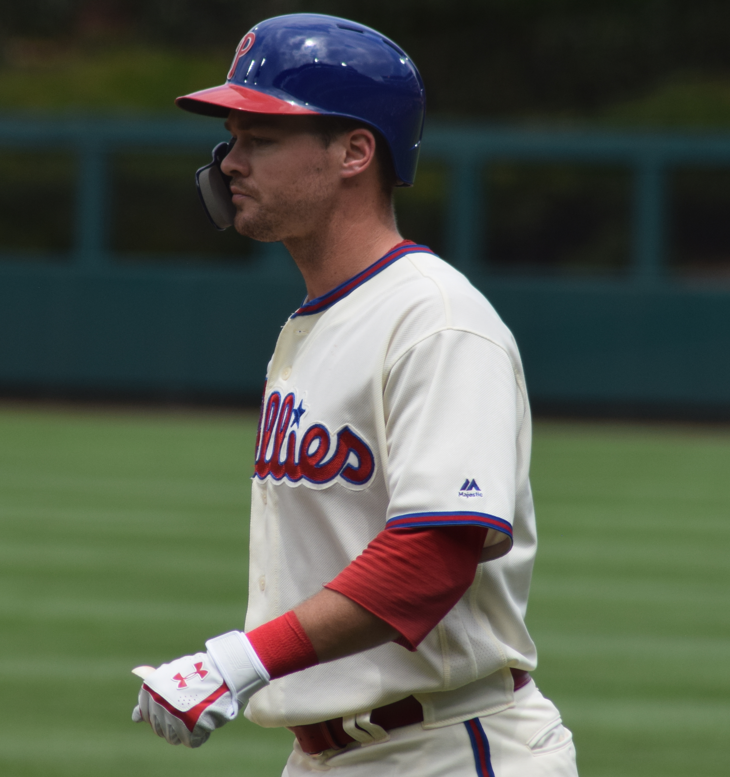 Andrew Knapp at Citizens Bank Park with the Philadelphia Phillies in 2018